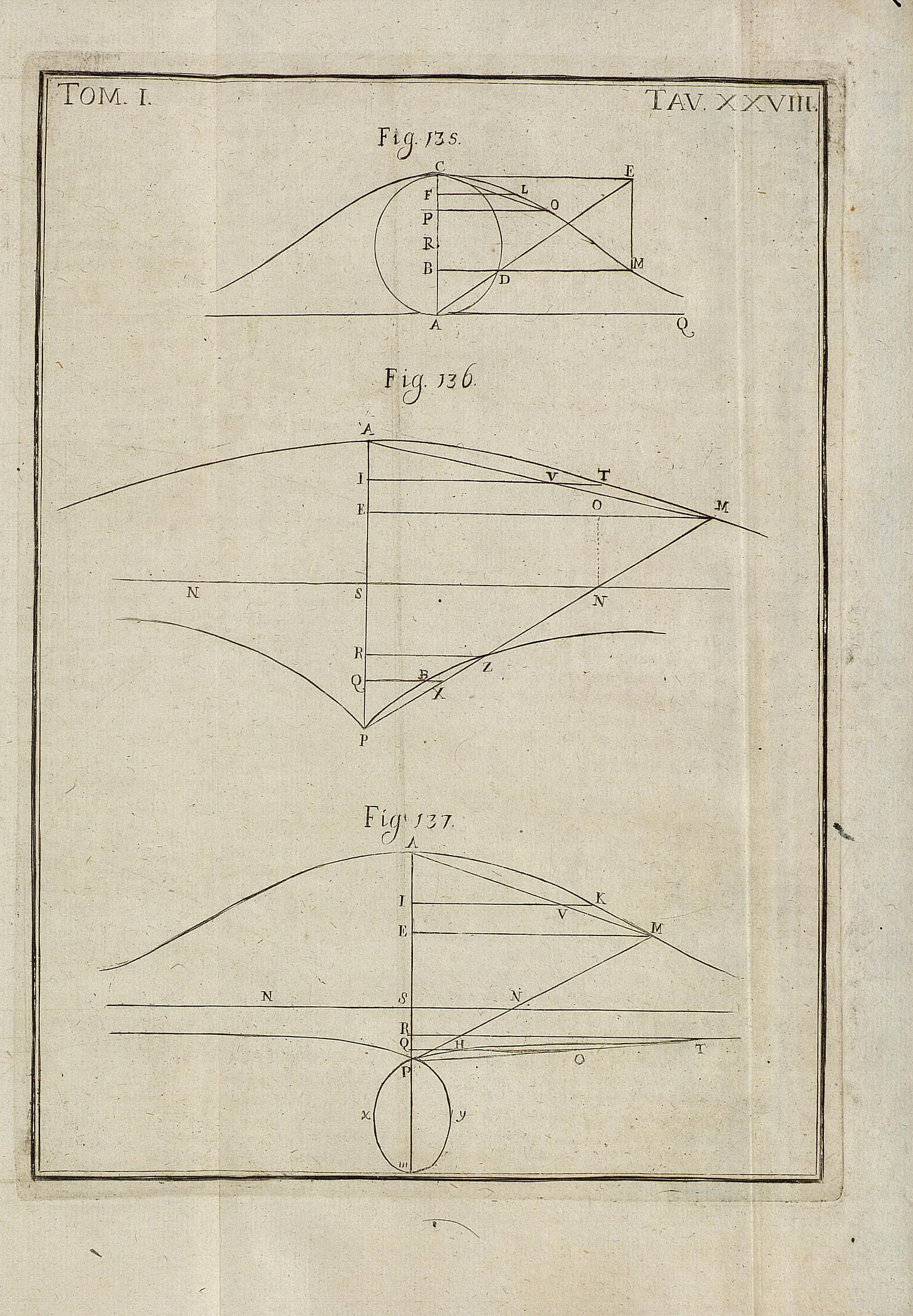 Maria Gaetana Agnesi's illustration of the Witch of Agnesi, from her book Instituzioni analitiche ad uso della gioventú italiana (Vol. I, 1748)